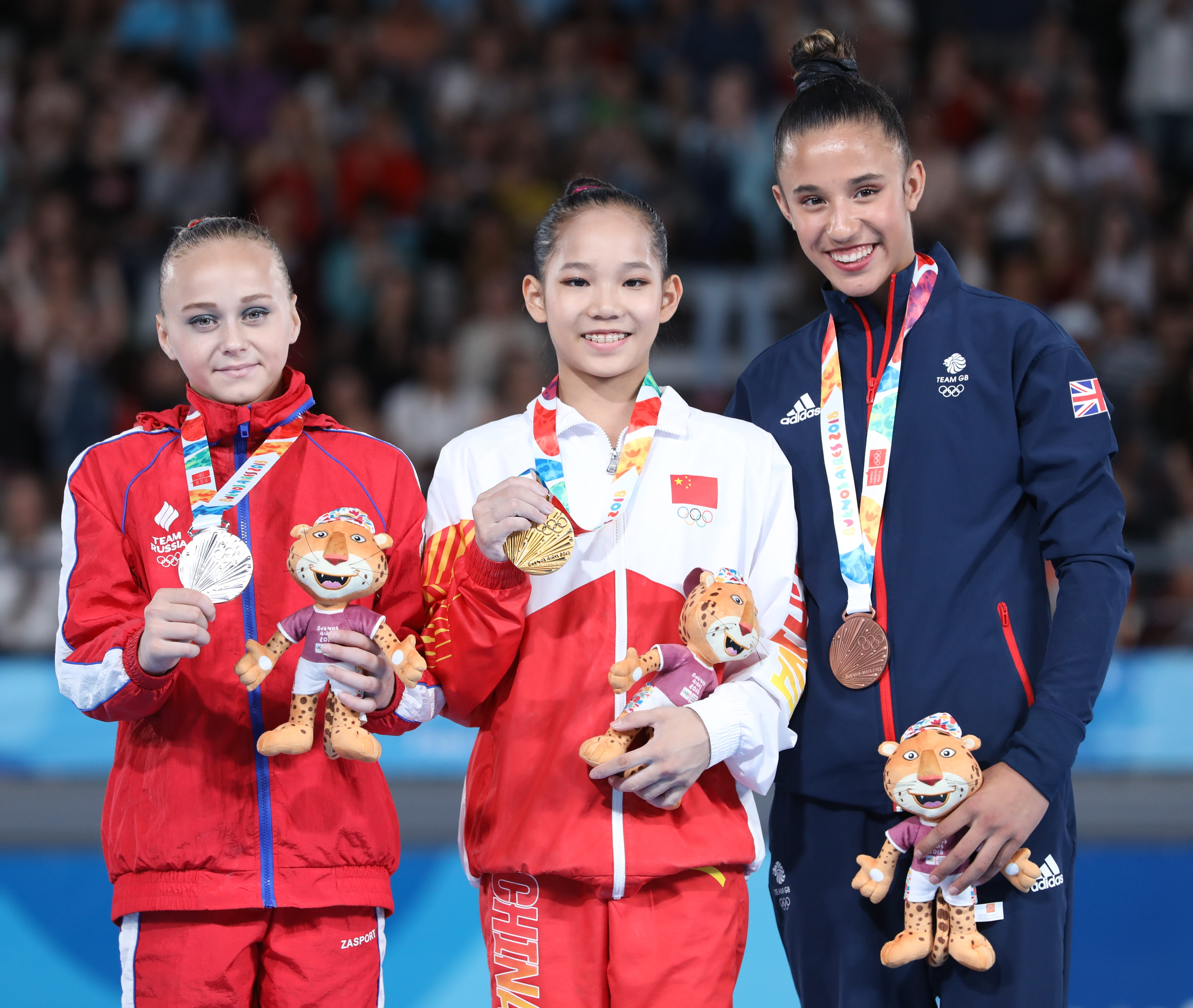 Girls' Artistic Gymnastics, Balance beam: Victory ceremony